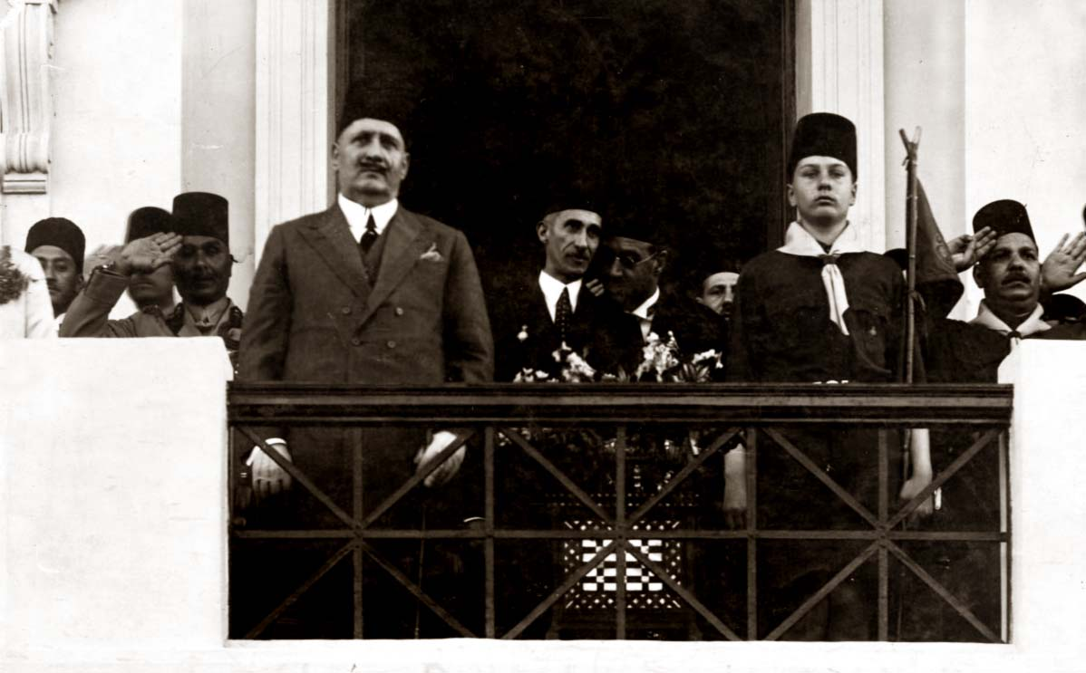 King Fouad I of Egypt (left) with the Chief Scout and Crown Prince Farouk (right), who is seen wearing the Egyptian Scout uniform.